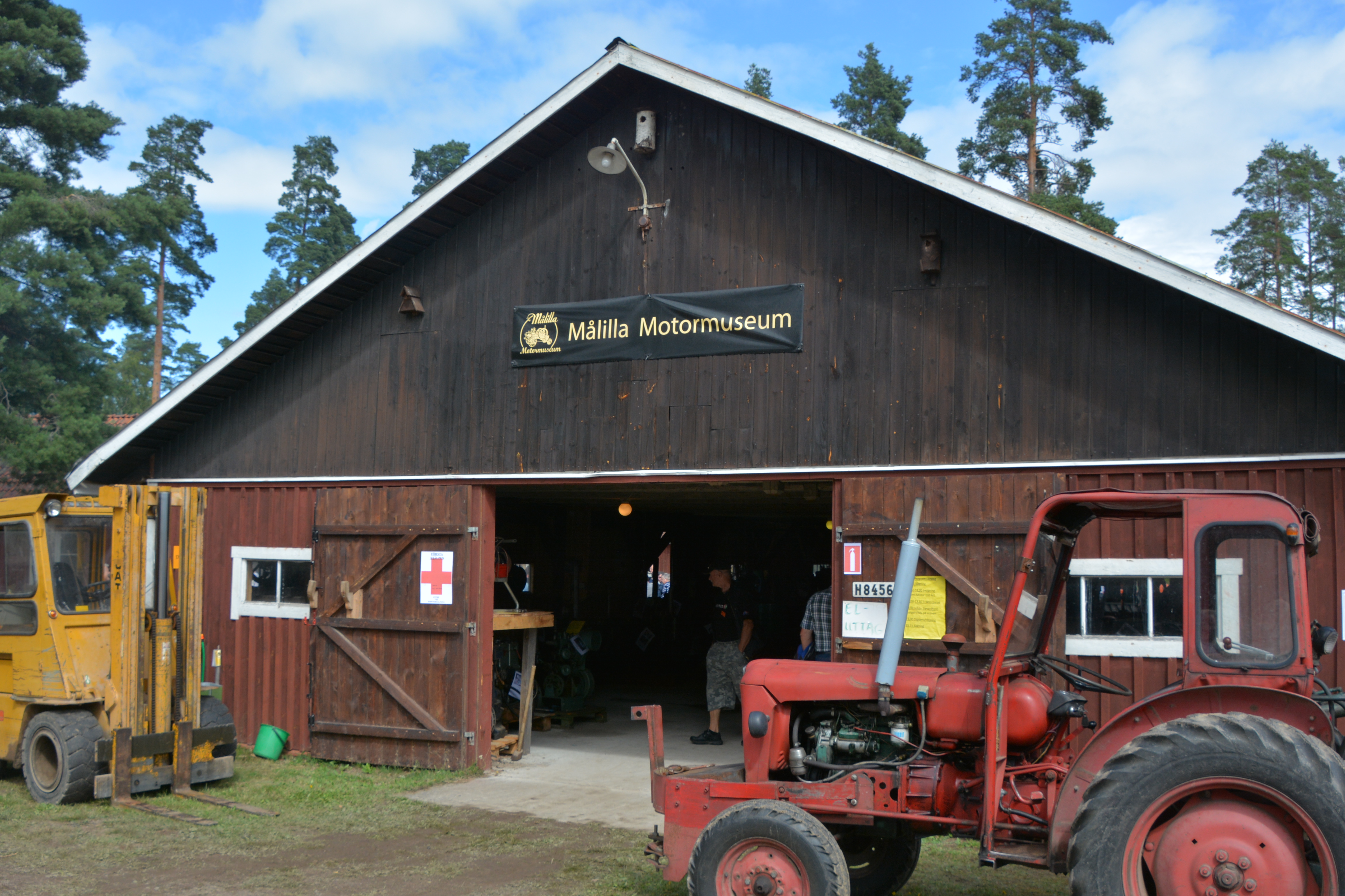 Målilla motormuseum exteriör, Motorns dag 2017